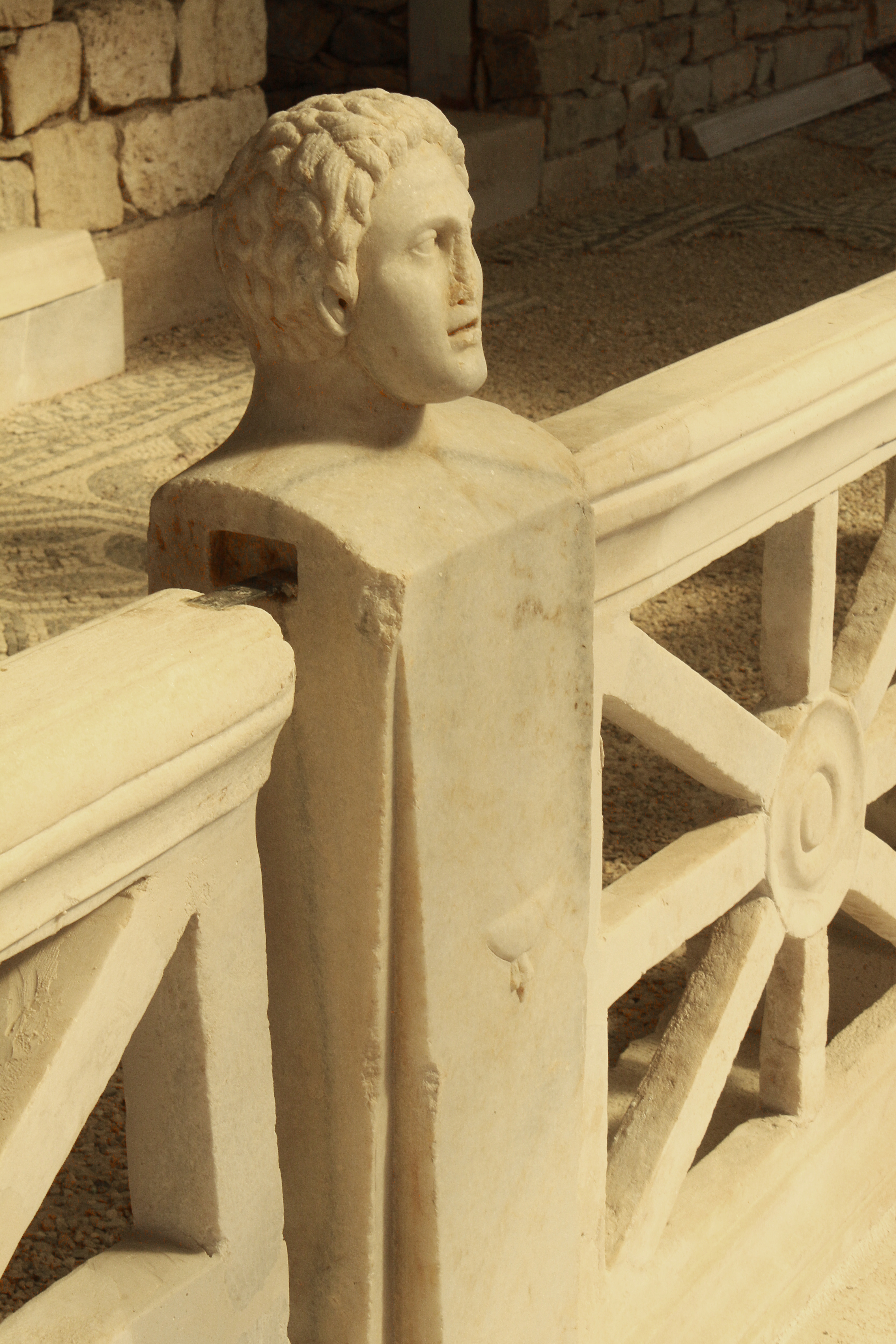 Villa Armira, in the Rhodope Mountains, Bulgaria